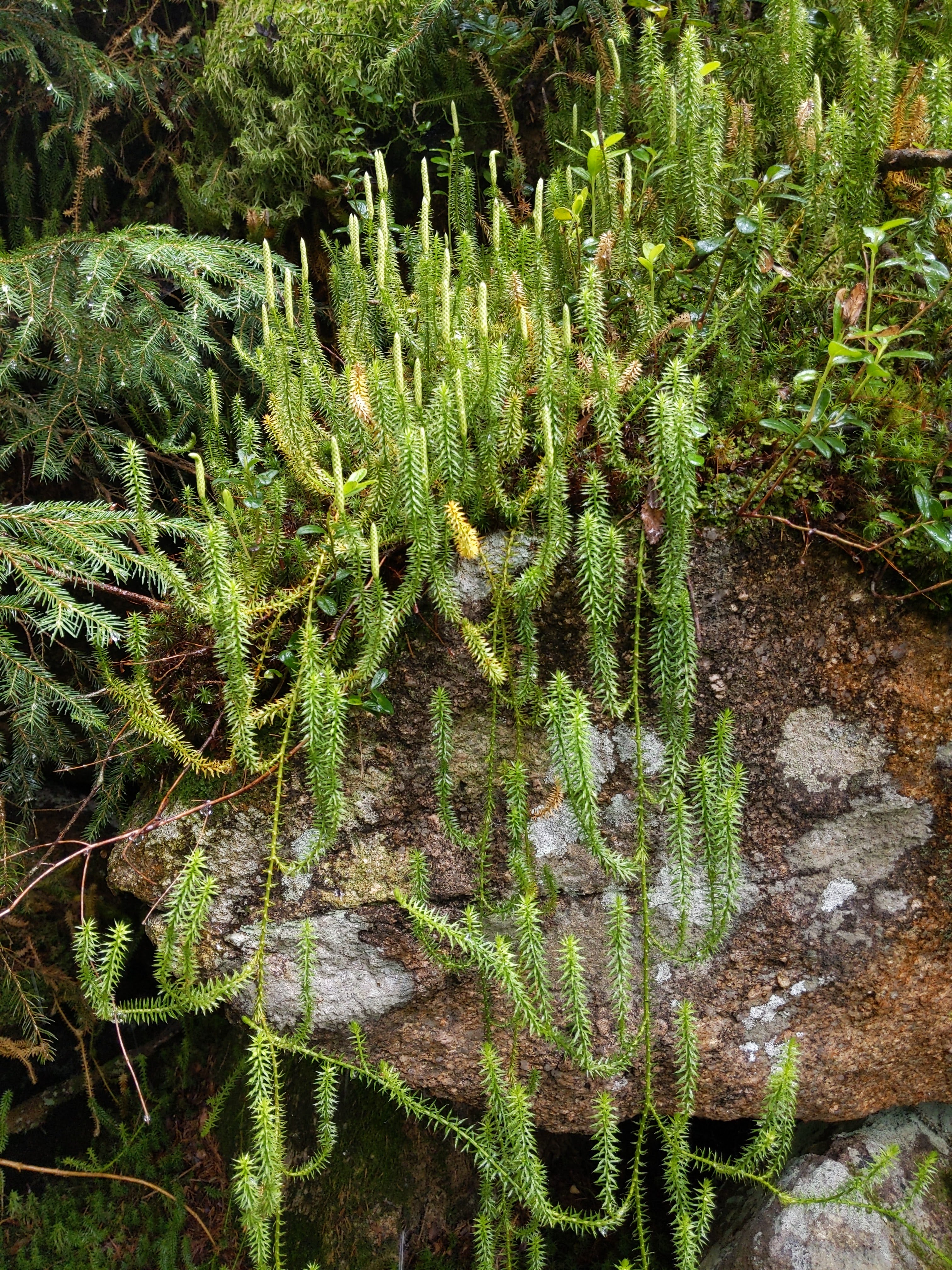 Lycopodium annotinum, Krkonoše near Špindlerův Mlýn, Czechia